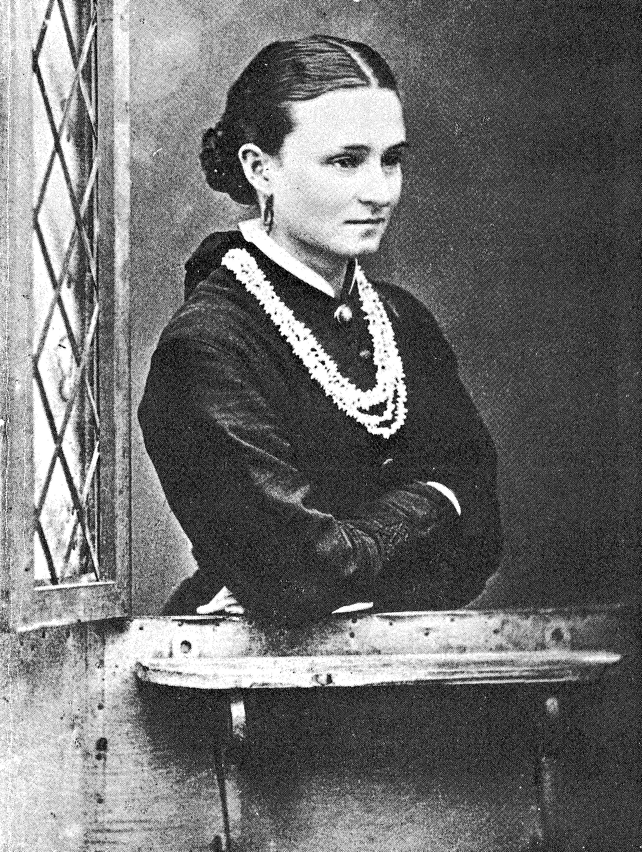 This is a photograph of Edith Brown, later Edith Cowan (1861–1932), first woman elected to an Australian parliament.